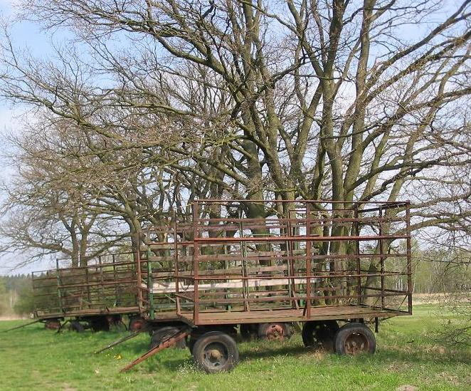 Valley of the Tegeler Fließ (stream) between Berlin-Lübars and Schildow, Germany.